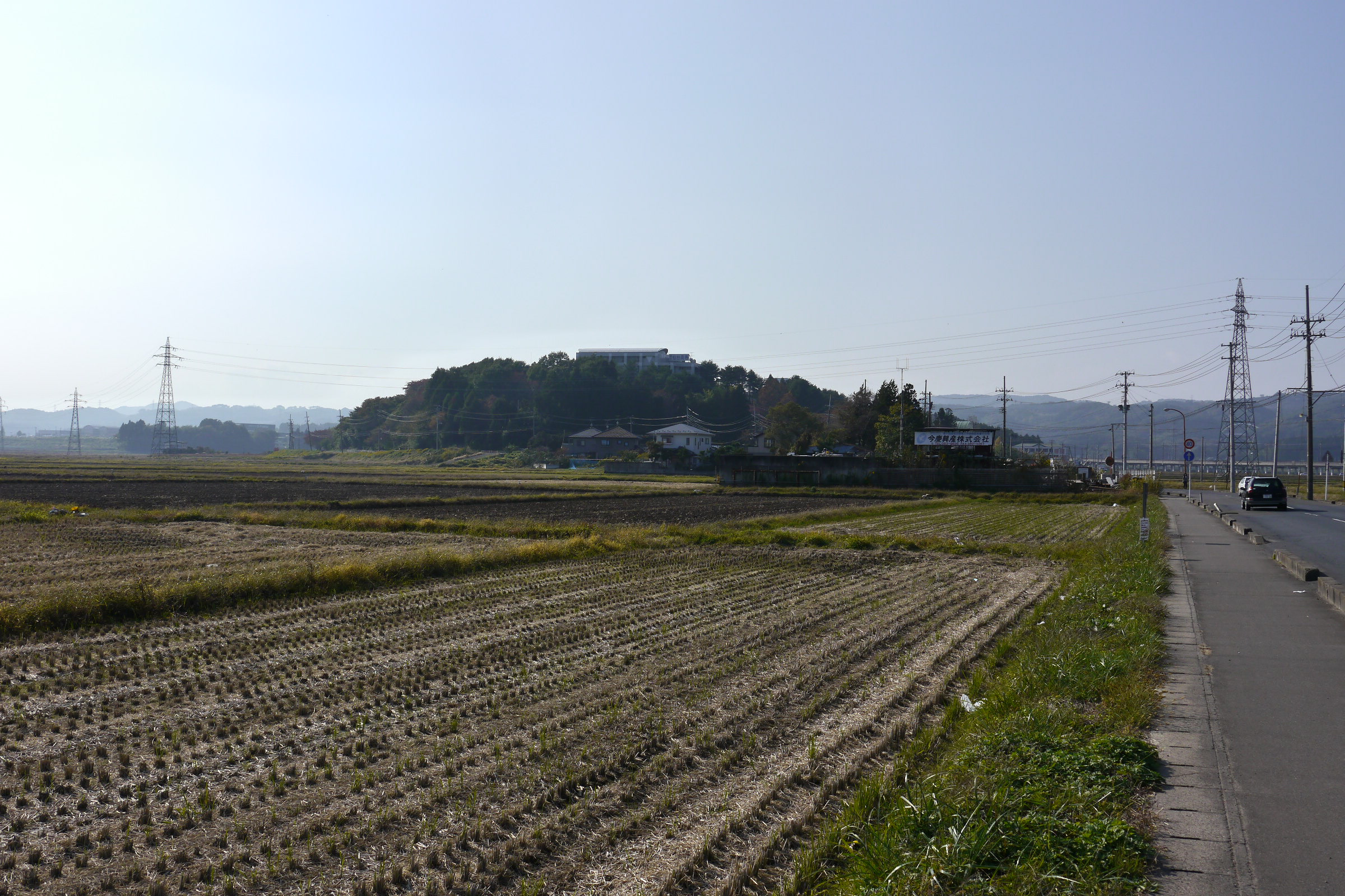 Noda-yama (Mt. Noda or Noda Hill). From Tekurada to Shiote in Natori, Miyagi prefecture, Japan. The Natori Campus of Sendai National College of Technology is located on the hilltop.